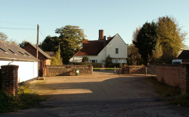 A view of Thorley Hall, just northeast of the church